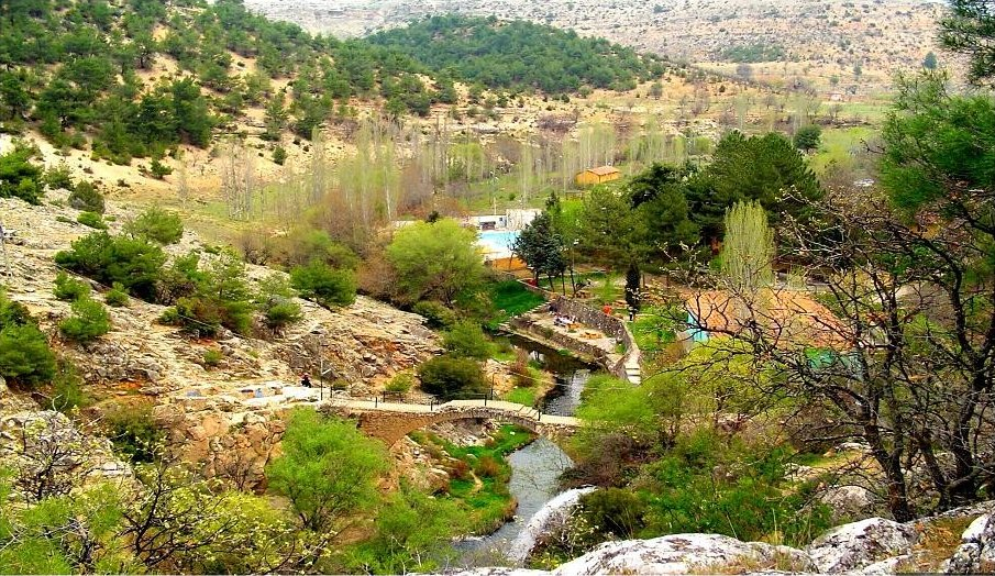 Aerial view of ancient Cılandıras bridge — reportedly Lydian near Karahallı, Uşak Province, Turkey.